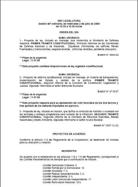 tabla